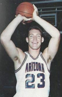 Basketball player Tom Tolbert with the Arizona Wildcats.